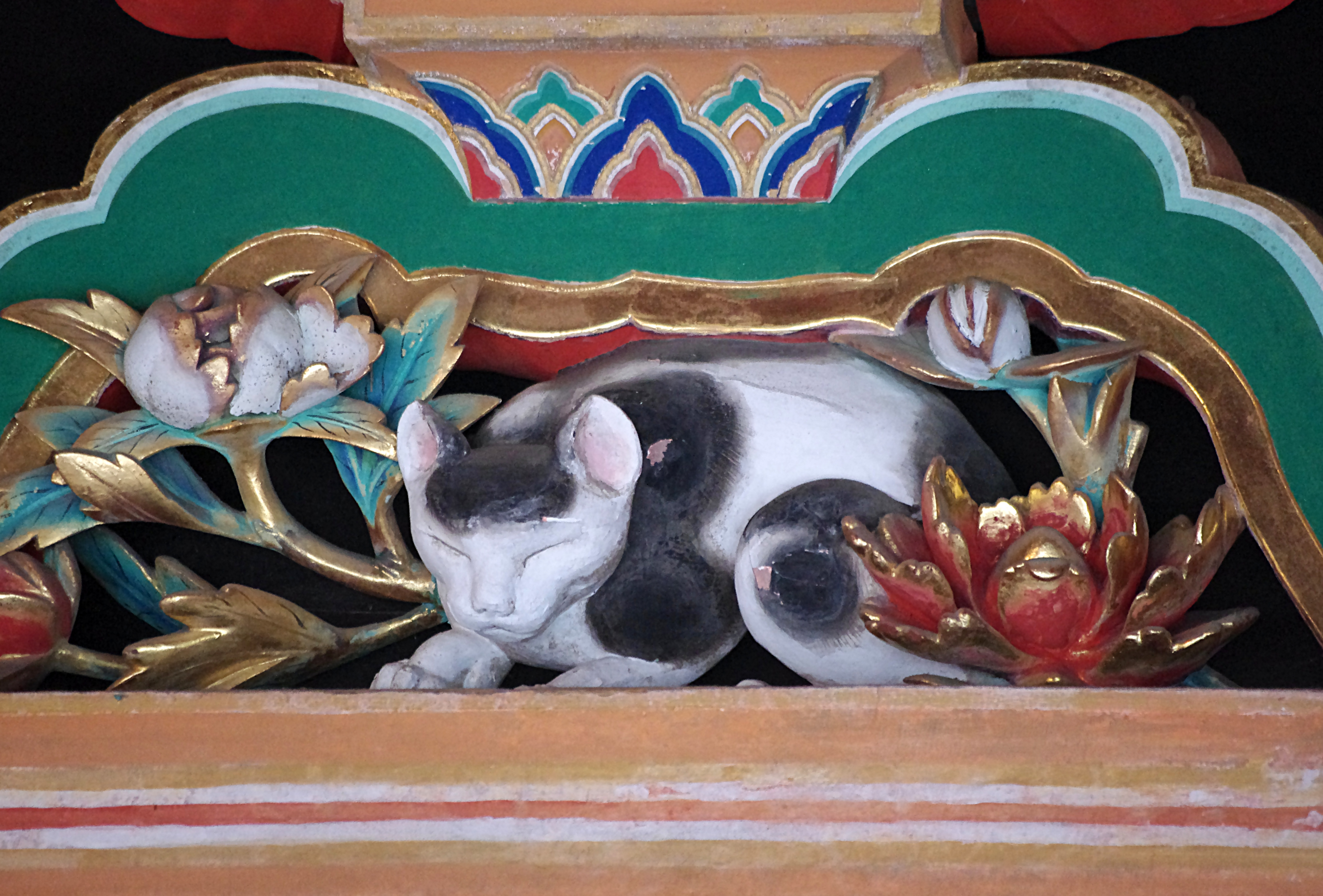 Nemuri-neko (Sleeping Cat) carving at Tōshō-gū Shrine in Nikkō